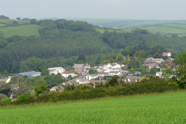 The northerly aspect of the village of Knowle.